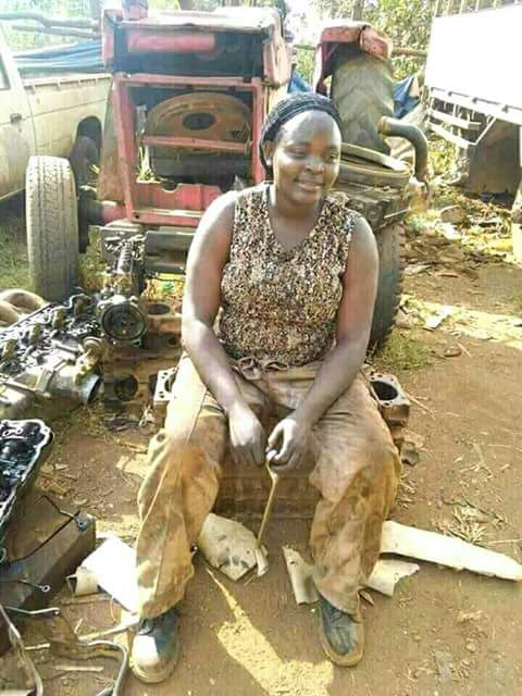 The featured lady is working at a garage in a Kenyan city, She is one of the ladies who have to work against the African culture of gender sterotyping and division of labor. This is an image of "African people at work" from Kenya